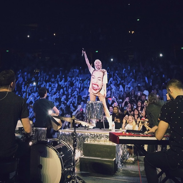 Miley Cyrus performing in February 2014